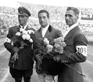 Left-right: Óscar Cristi, Pierre Jonquères d'Oriola, Fritz Thiedemann at the 1952 Olympics